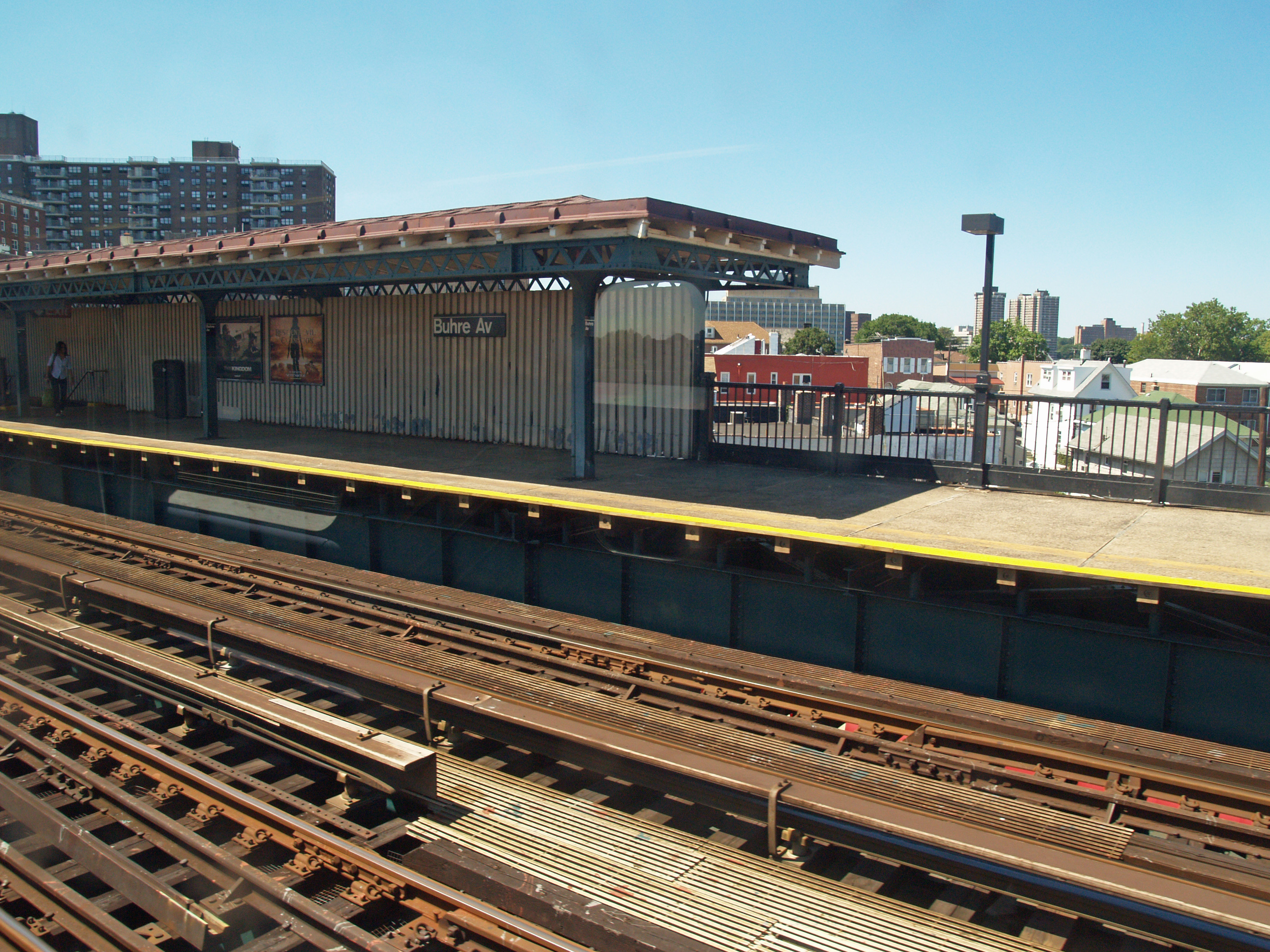 Buhre Avenue (IRT Pelham Line) by David Shankbone